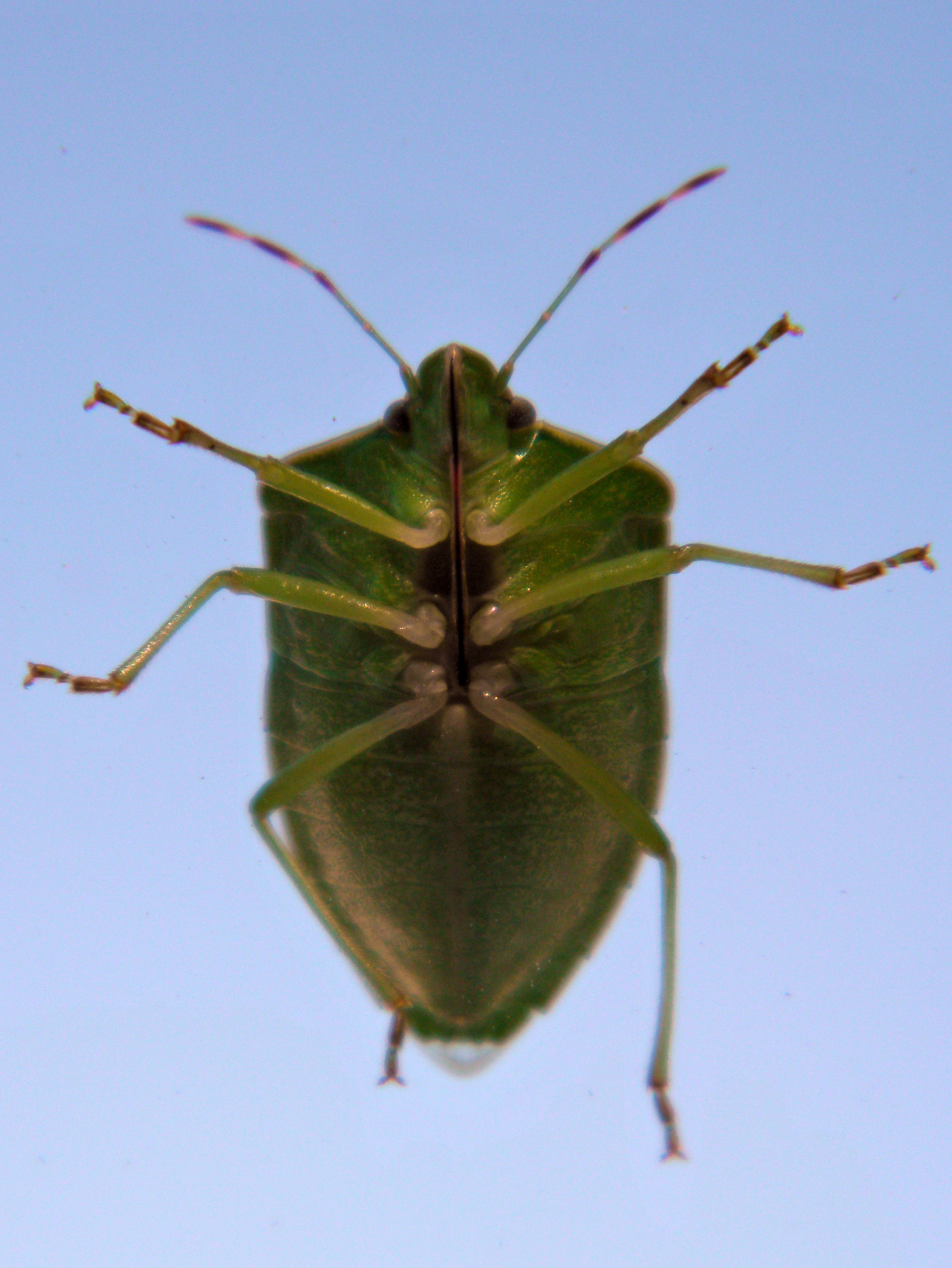 Palomena prasina, ventral view.